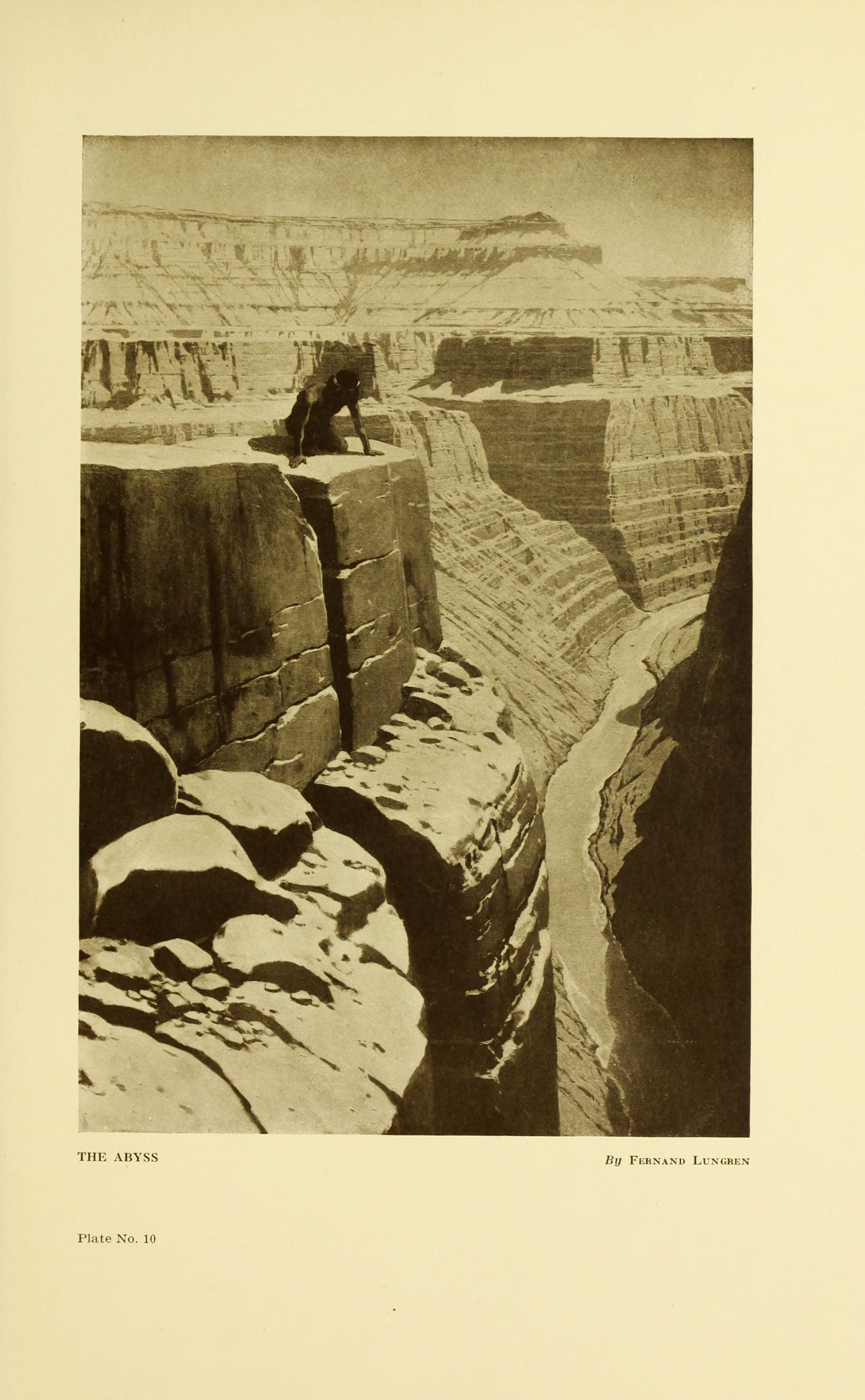 The Abyss Title: Art in California : a survey of American art with special reference to Californian painting, sculpture and architecture past and present, particularly as those arts were represented at the Panama-Pacific International Exposition : being essays and articles by the following contributors Year: 1916 (1910s) Authors: Porter, Bruce Subjects: Panama-Pacific International Exposition (1915 : San Francisco, Calif.) Art, American Art Publisher: San Francisco : R.L. Bernier Text Appearing Before Image: Plate No. 9 Text Appearing After Image: Plate No. 10